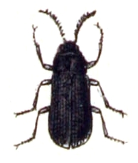 Cerophytum elateroides, from Calwer's Käferbuch, Table 24, Picture 22. Taxonomy was updated to 2008, using mostly the sites Fauna Europaea and BioLib. Please contact Sarefo if the determination is wrong!